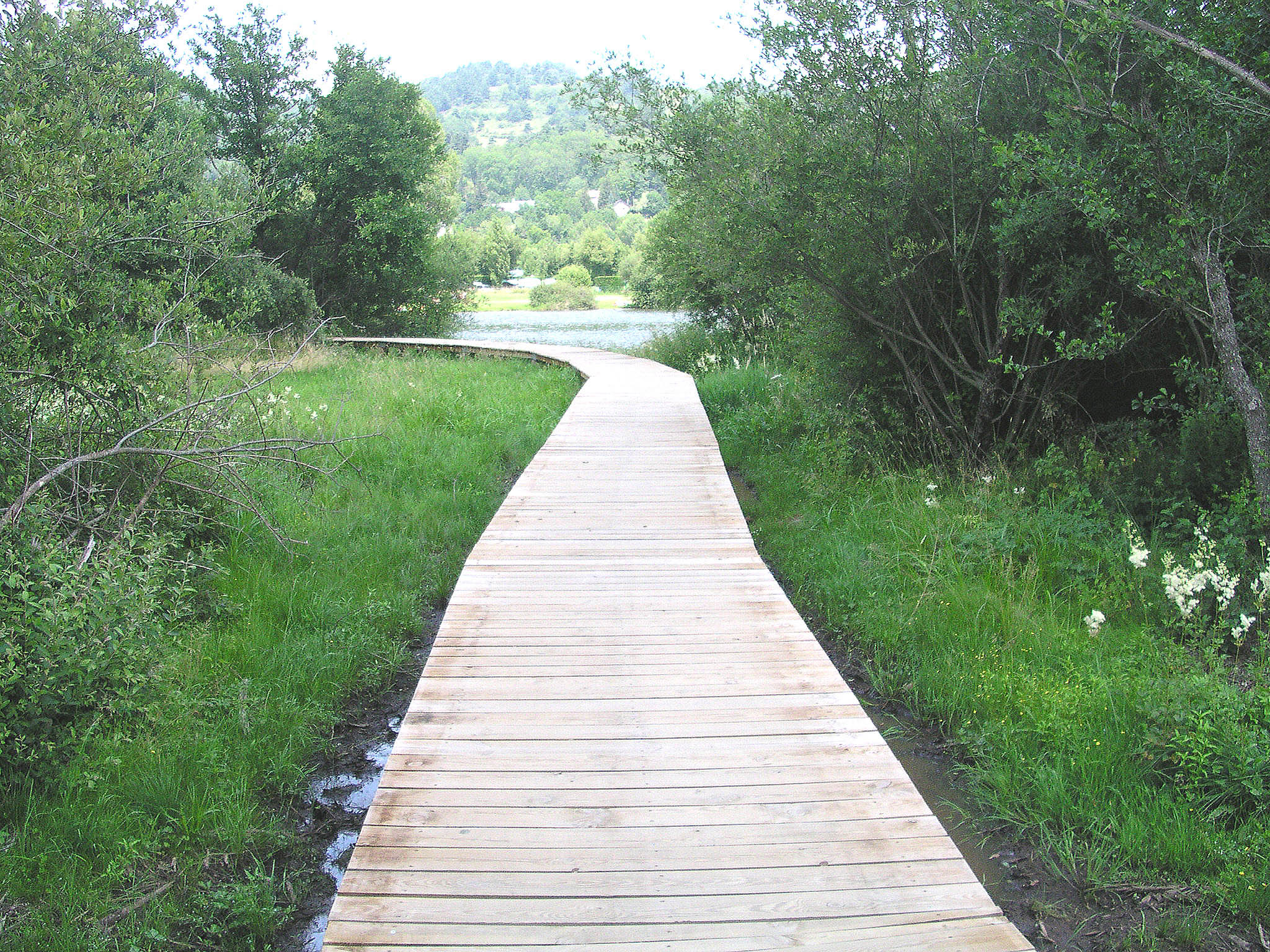 Lac Chambon (département des Puy-de-Dôme, Auvergne, France, walking path around the lake. Photographie prise/Picture taken by Romary 14 juillet/July 2006